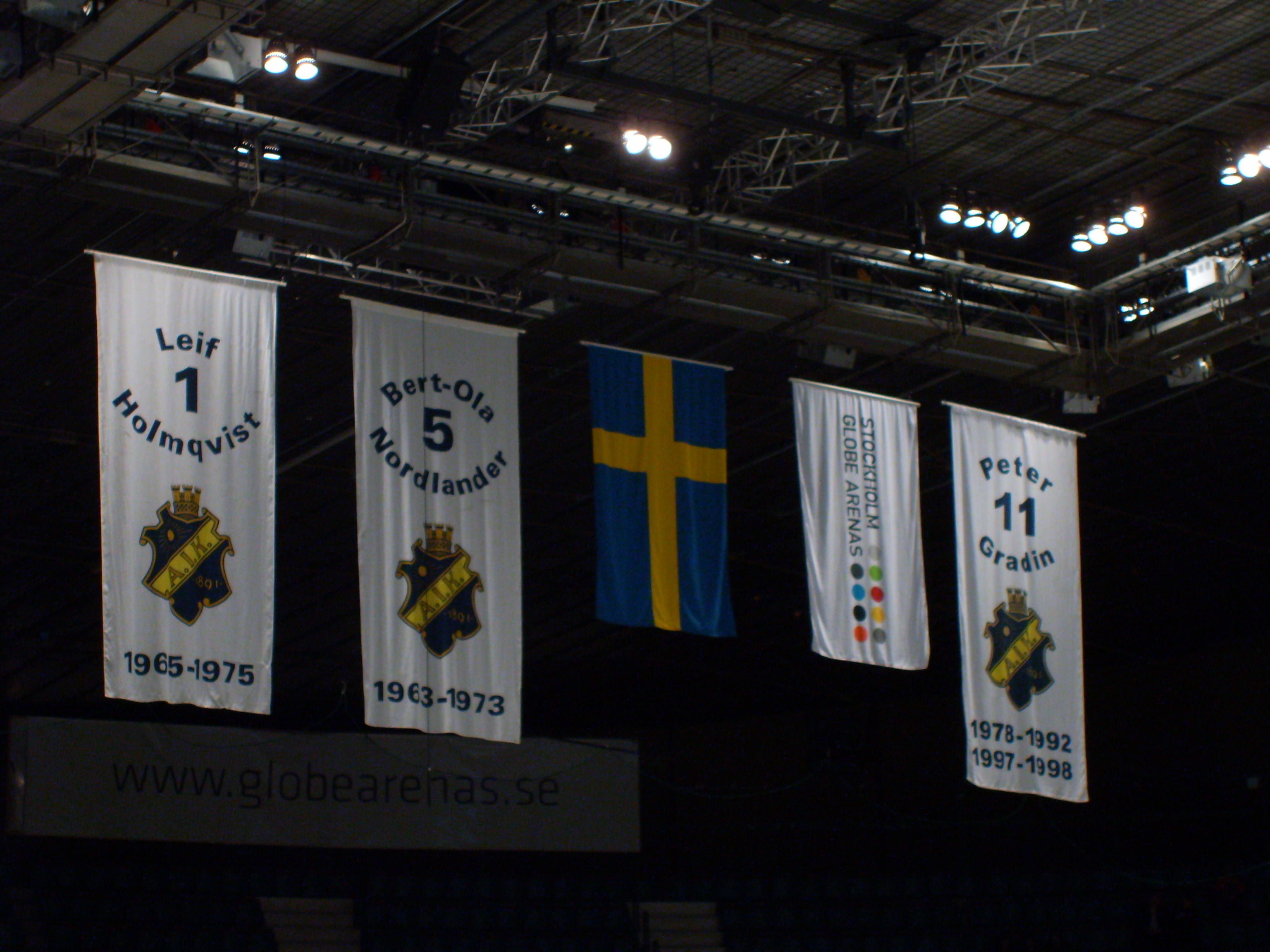 Banderoles with ice hockey players from AIK, Sweden.